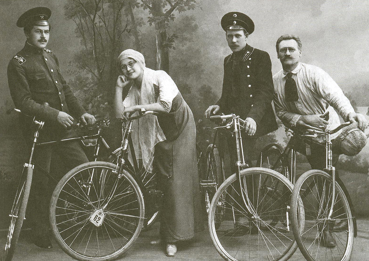 Photo of pre-USSR cyclists.